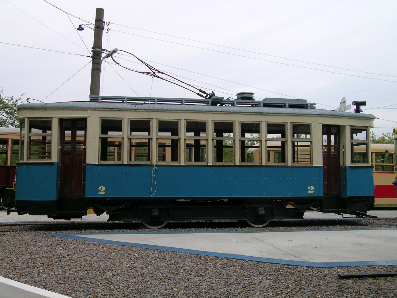 The motor tram of Kh type in Electric city transport museum of Nizhny Novgorod, Russia.